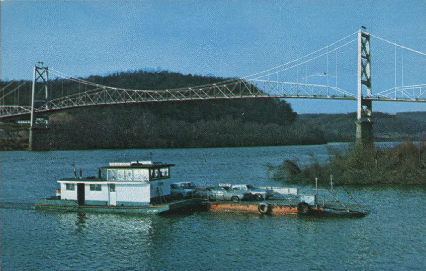 Photograph on a postcard showing the original Hi Carpenter Bridge (formerly the Clarksburg-Columbus Short Route Bridge) in 1970 after it had closed due to similarities in construction to the collapsed Silver Bridge. The ferry in the foreground was used as a temporary means of crossing the river while the new Hi Carpenter Memorial Bridge was being built.